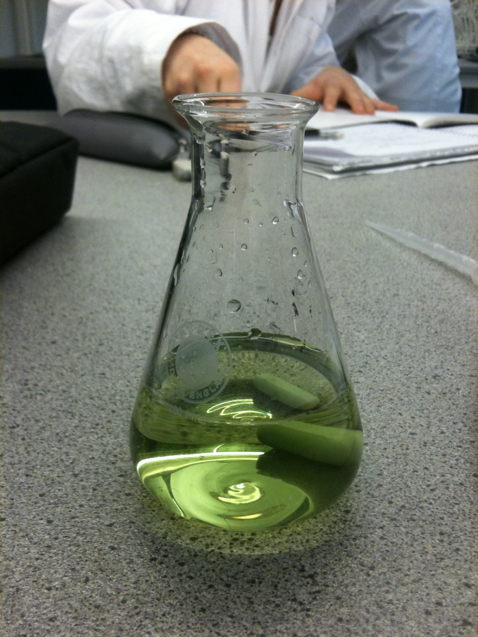 Neutralization reaction between sodium hydroxide and hydrochloric acid. Indicator agent bromothymol blue.